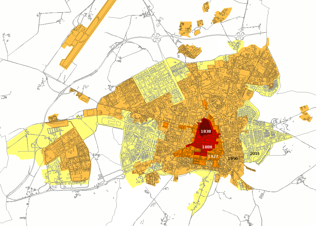 Expansion of Vitoria-Gasteiz (Basque Country, Spain)